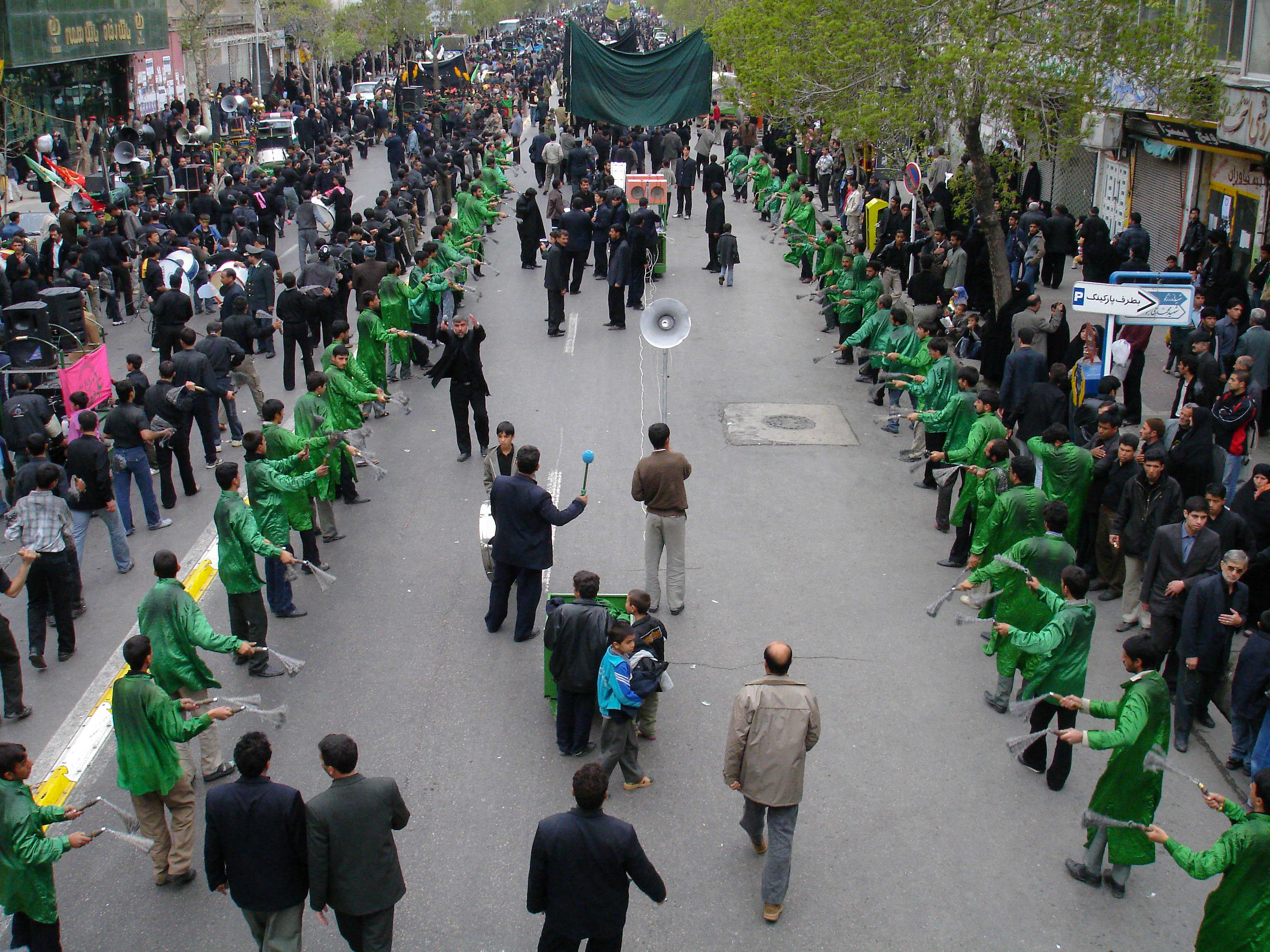 Arba'een or Qırxı, İmamın Qırxı (Azerbaijani: امامین قیرخی, "the fortieth of Imam") is a Shia Muslim religious observance that occurs forty days after the Day of Ashura. It commemorates the martyrdom of Husayn ibn Ali, the grandson of Muhammad, who was killed on the 10th day of the month of Muharram. Imam Husayn ibn Ali and 72 companions were killed by Yazid I's army in the Battle of Karbala in 61 AH (680 CE). Writing in forty batches has become a tradition among Islamic scholars.